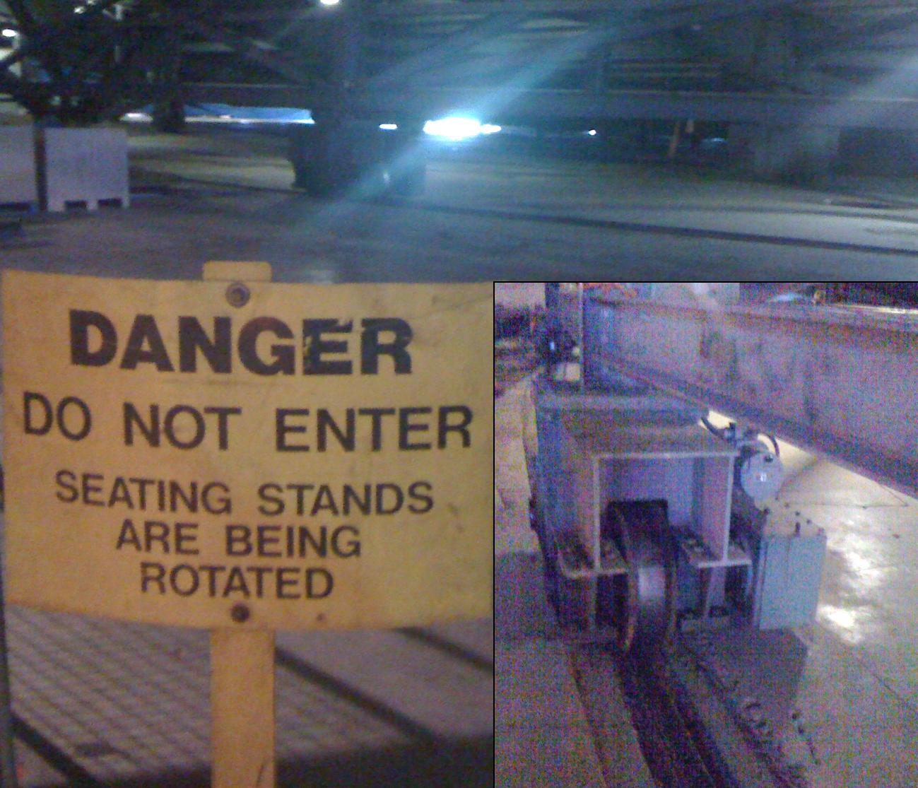 The field level seating in the Rogers Centre is designed to rotate to reconfigure for Canadian football and baseball. This is a view from below the seats of the railway tracks.